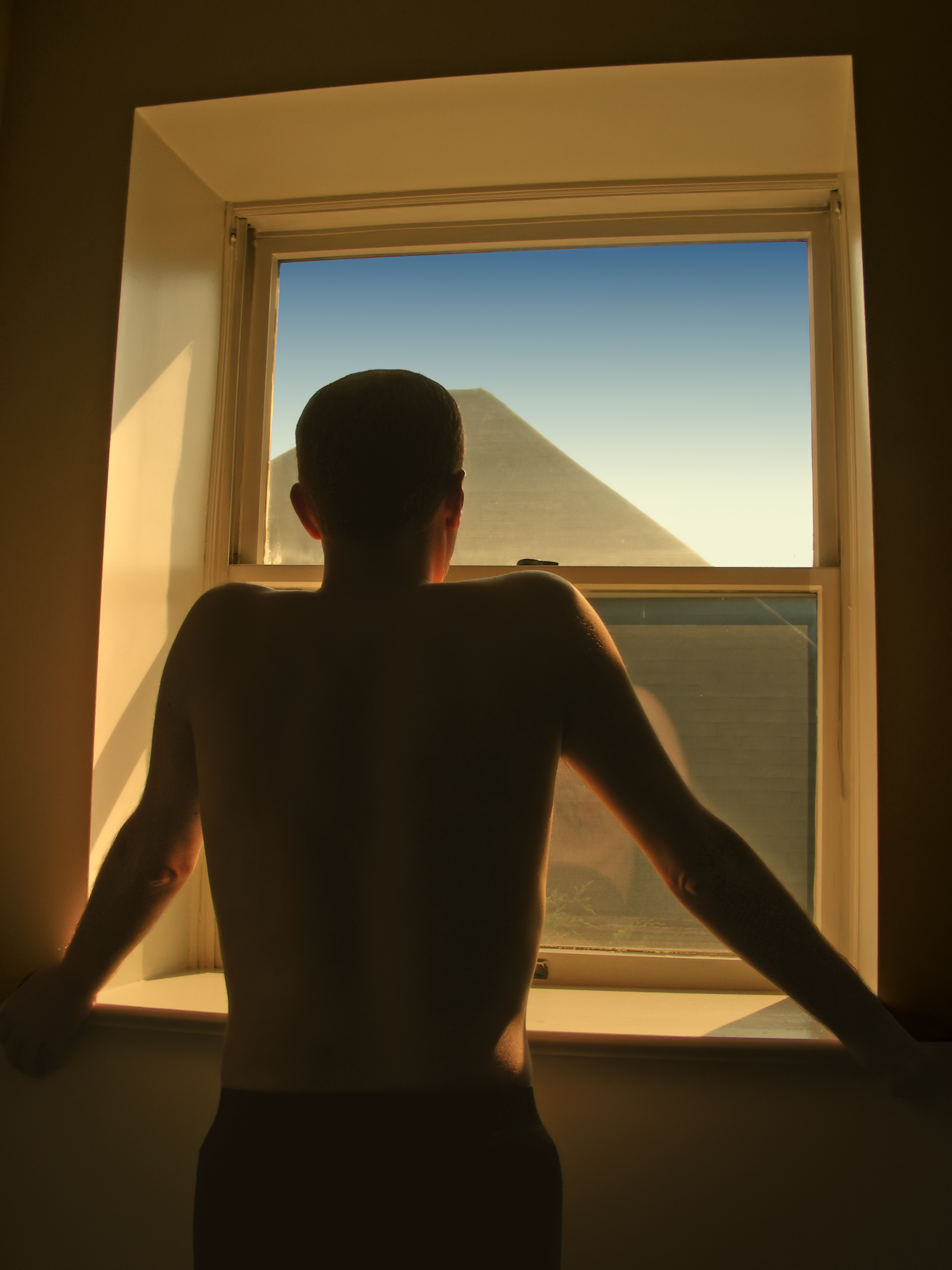 Shot with a graduated-neutral-density filter.